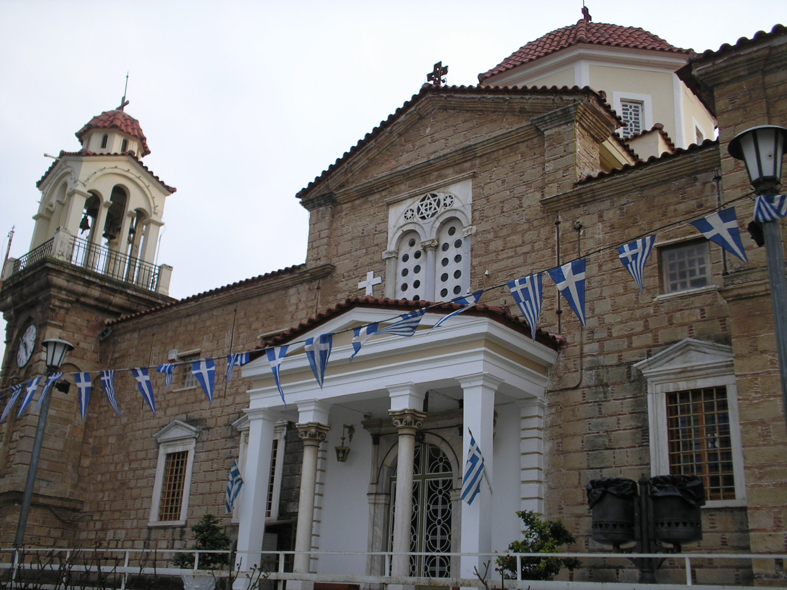 The Orthodox Churh of St. Theodori in Atalanti Fthiotis, Central Greece